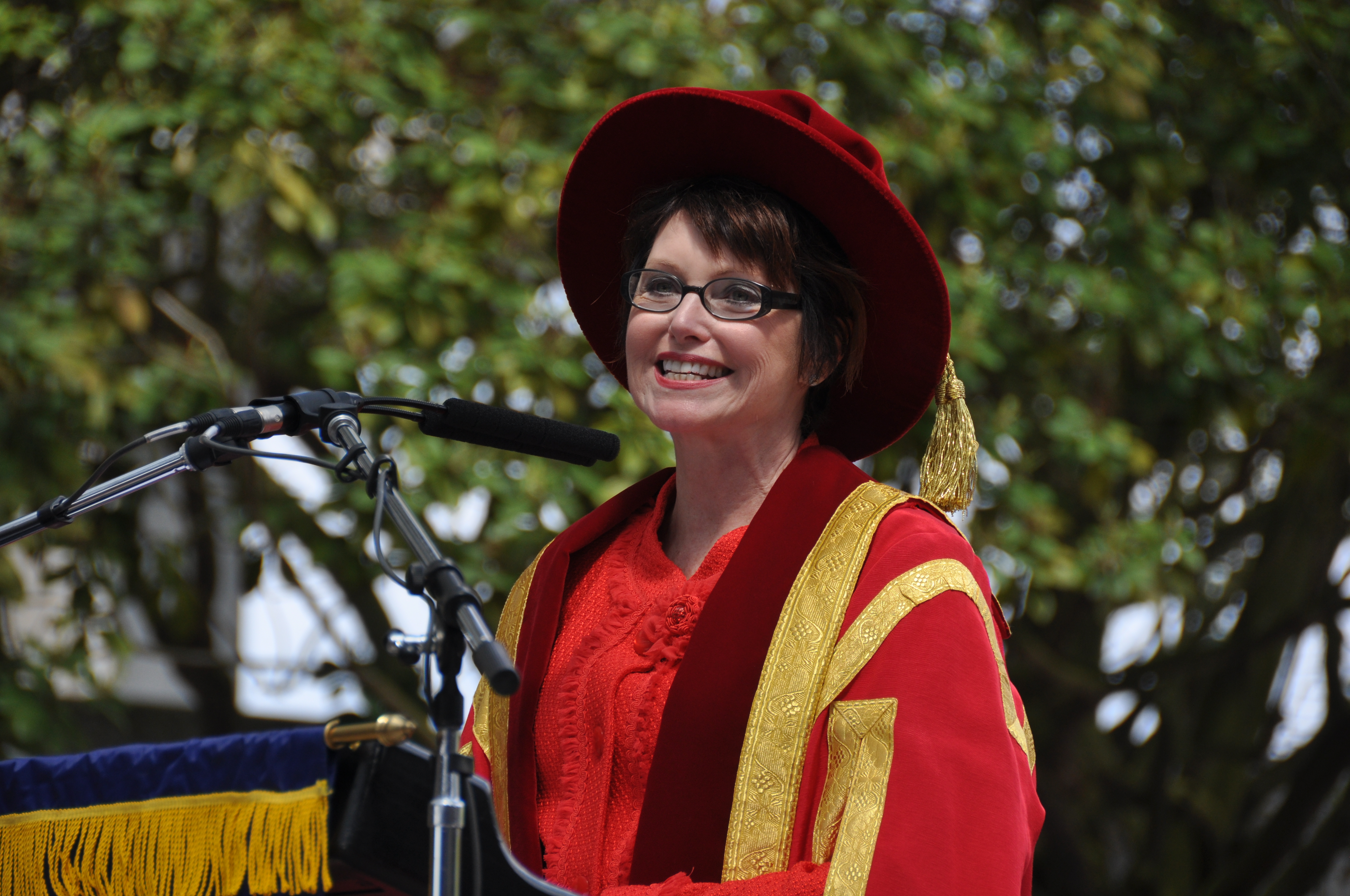 Carole Taylor installation at Convocation June 17, 2011